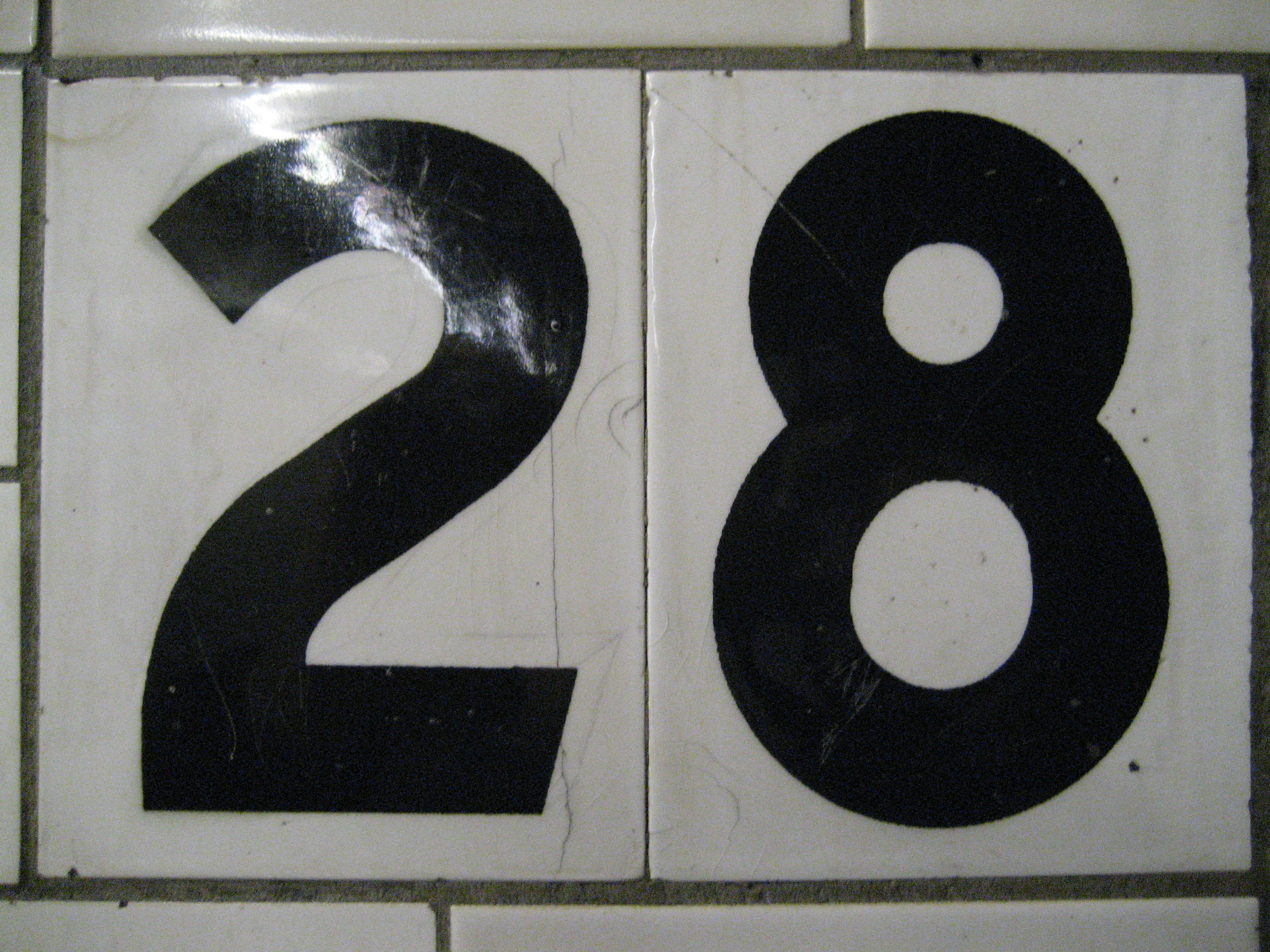 28th Street column mosaics